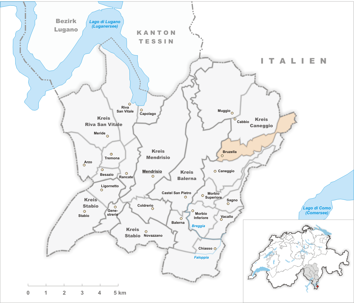 Municipality Bruzella